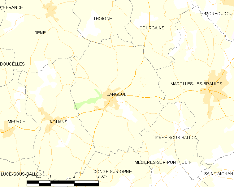 Map of French municipality